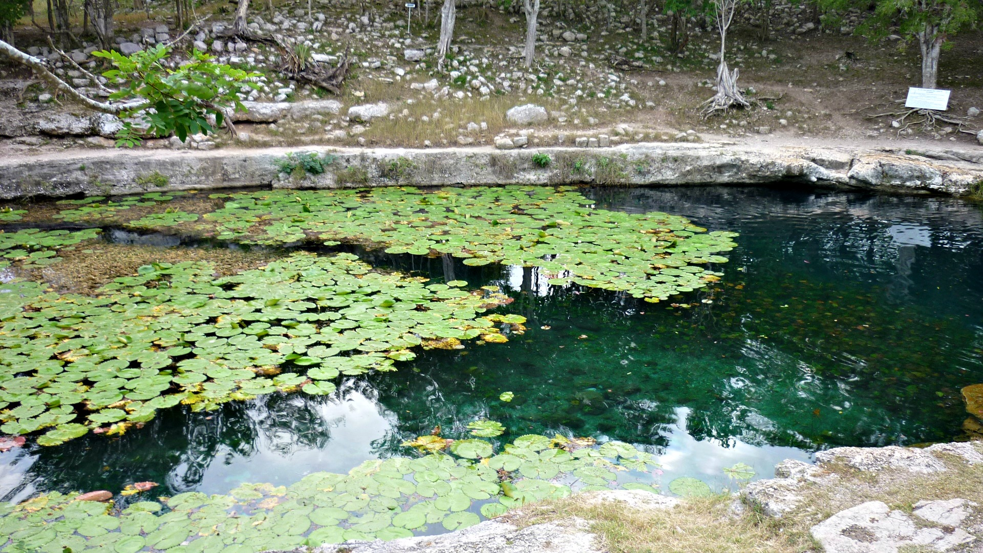 Cenote Xlacah at Dzibilchaltun archaeological area